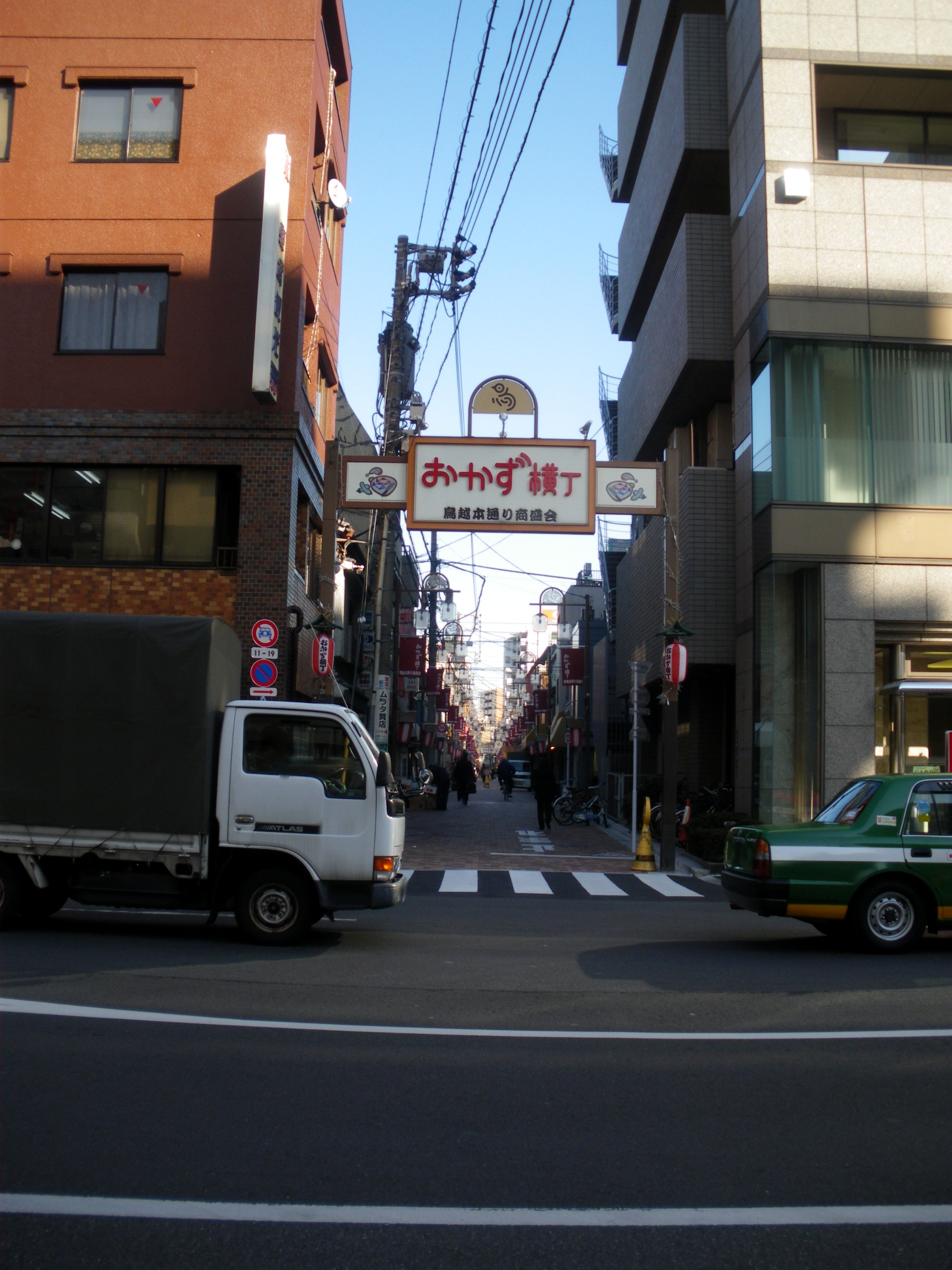 Okazu Yokocho(Taito,Tokyo)